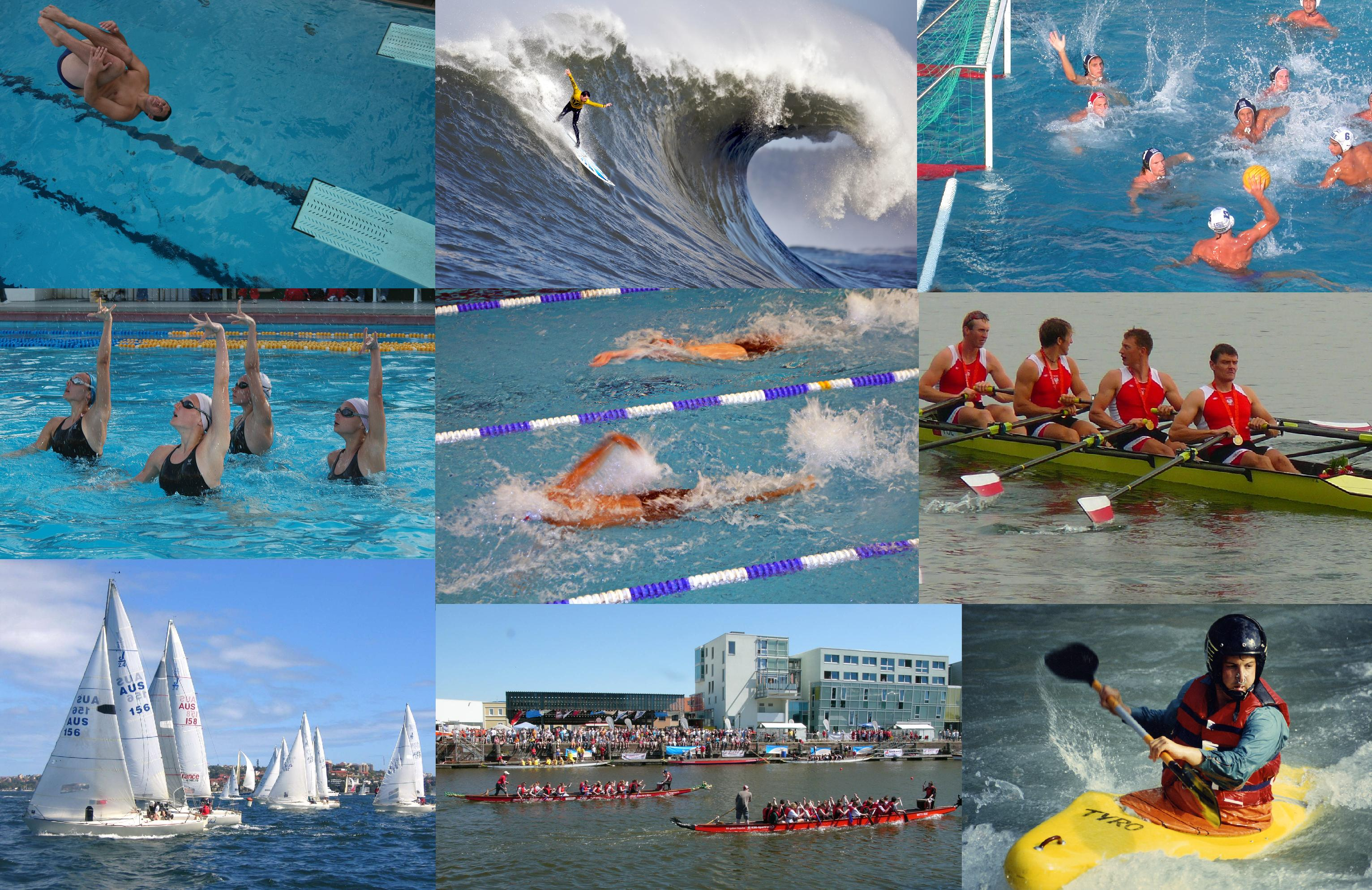 A male diver performs a reverse from a 3 meter springboard in the tuck position Swimmers at the 2007 Kingdom Games in Den Haag Whitewater kayaking, Isére, Bourg-Saint-Maurice Dragon boat Cup (1852 m = 1 nautical mile) in the fish harbour of Bremerhaven, Germany